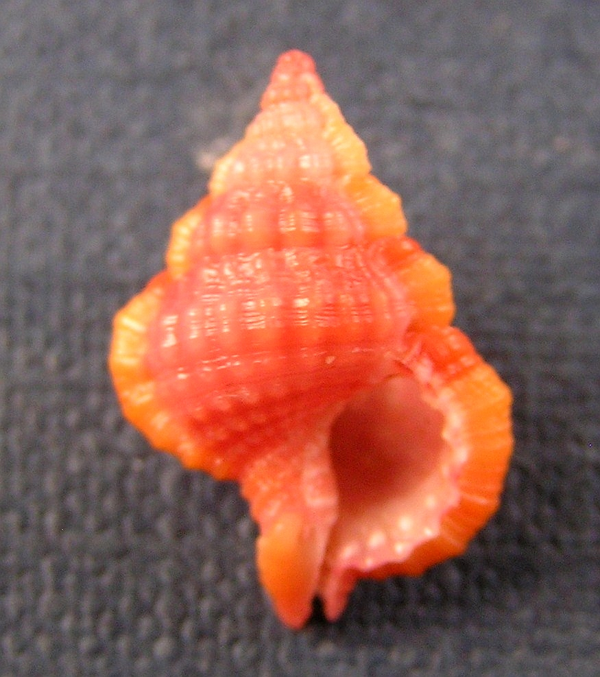 Gyrineum roseum (Reeve, 1844), a triton snail from the family Ranellidae; Philippines